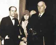 The President of Argentina, Marcelo Torcuato de Alvear (right), appears with sculptor José Fioravanti and his wife, Ludmilla, during a 1928 exhibit of Fioravanti's work at Buenos Aires' Friends of the Arts Institute.